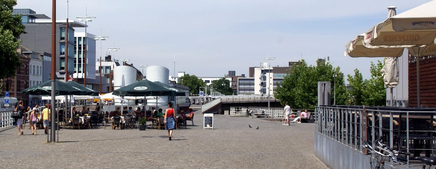 Maas Promenade along the Meuse River in Maastricht, Netherlands